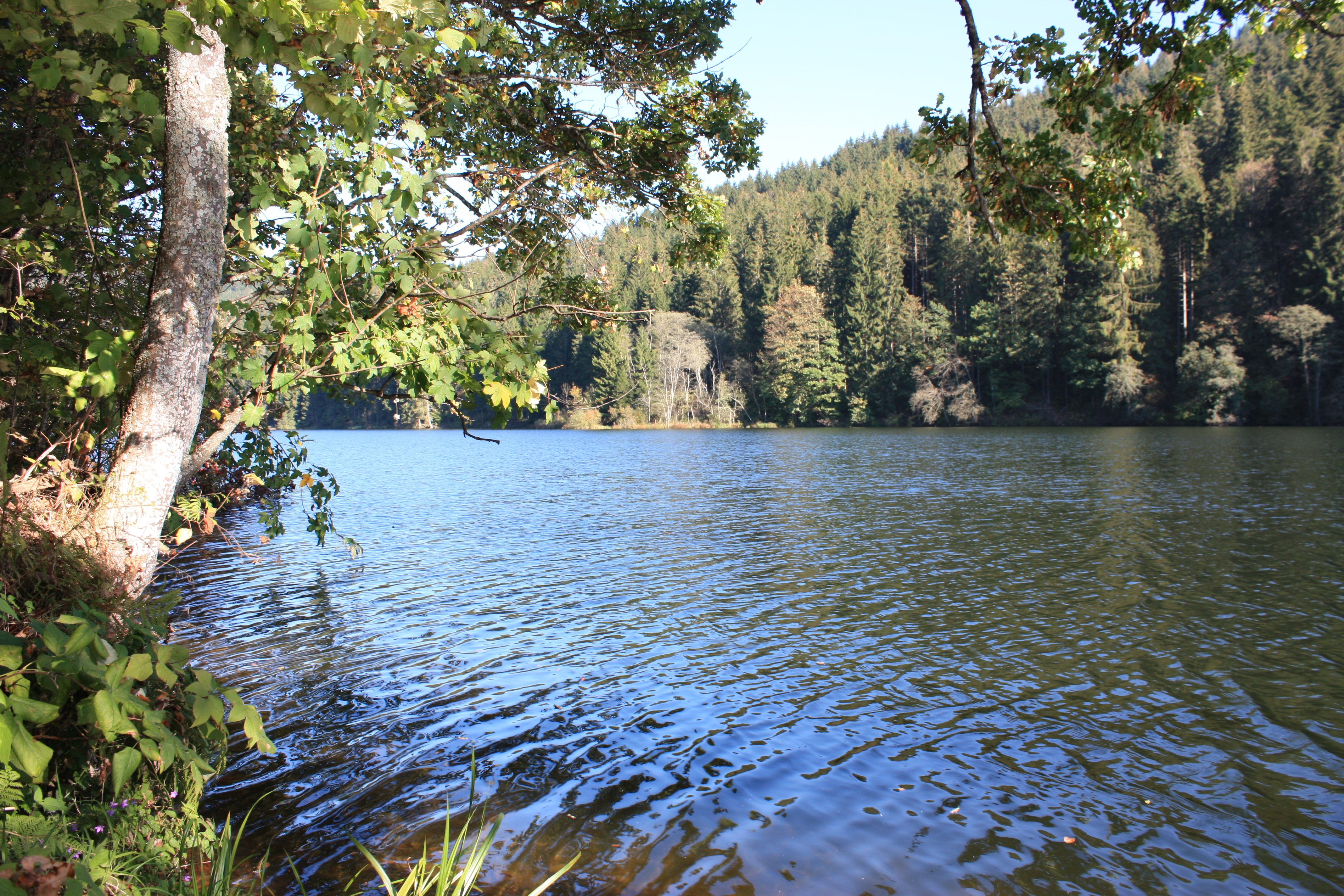 Lake Goggau Community:Steuerberg